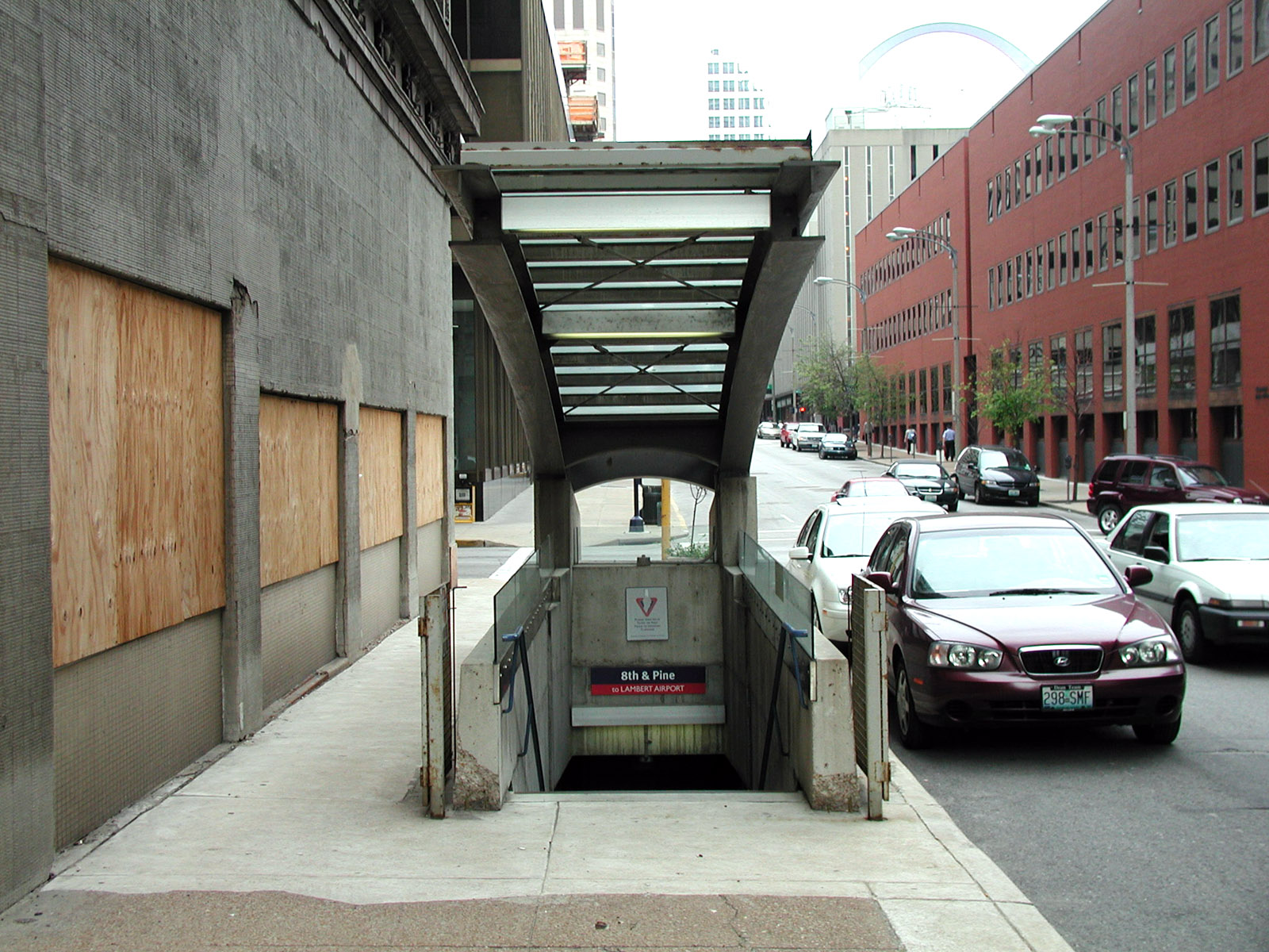 MetroLink (8th & Pine Station)